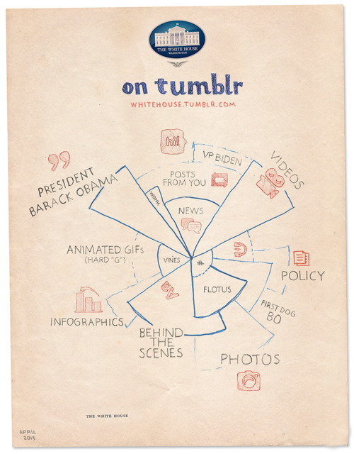 Image announcing the launch of a White House tumblr page